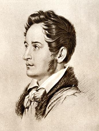 Portrait of A. Herzen